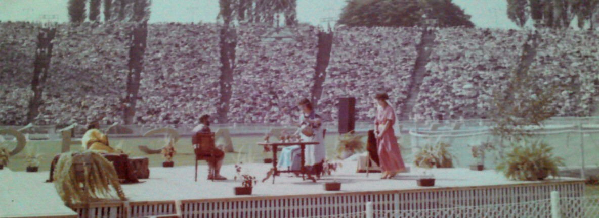 International Convention of Jehovah's Witnesses, 1985, Chorzów, Poland